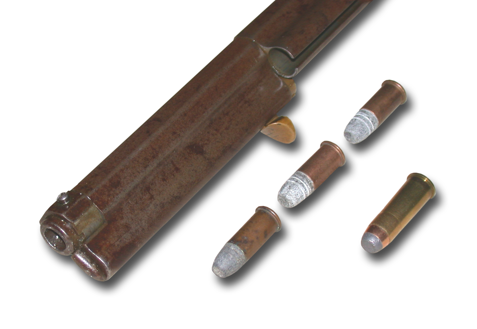 Mod 60 Henry rifle, magazine open for loading; 3 Henry rounds, one round 44-40 to compare